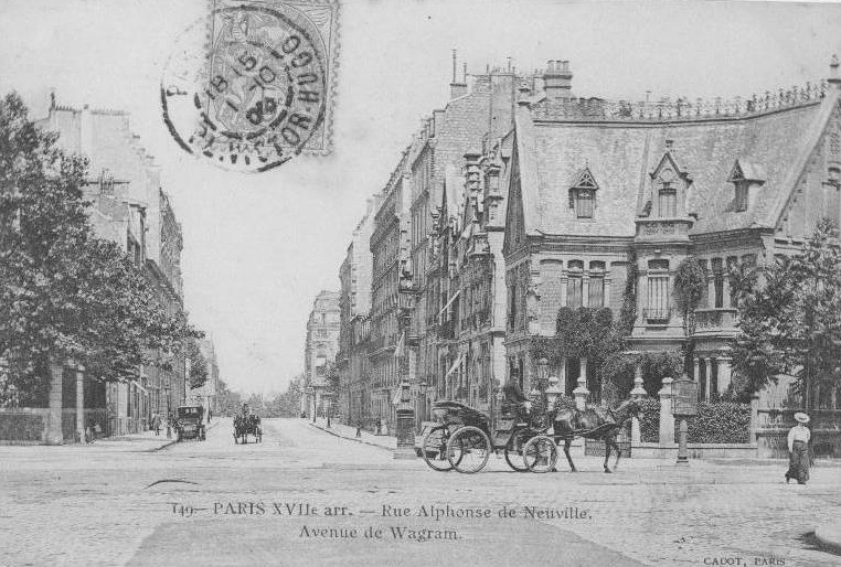 Postal Card - beginning of 20th century, Paris 17th arrondissement